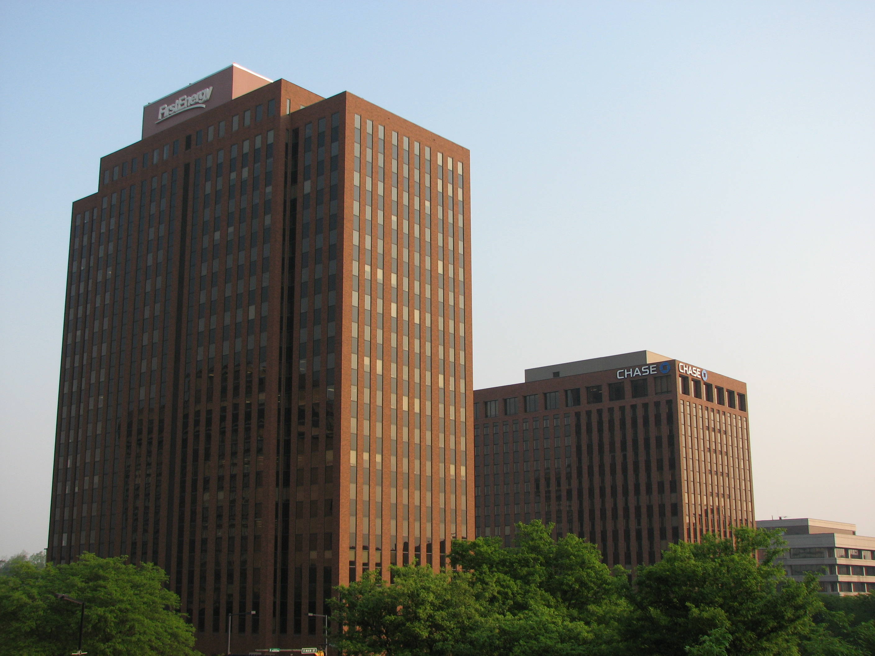 First Energy Building and Akron Centre Plaza in Akron, Ohio